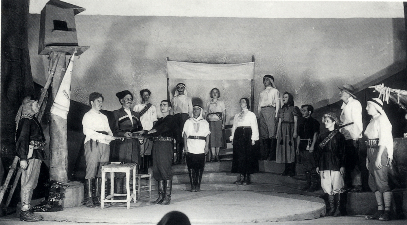 Wachhman 1937, at Habima National Theatre. set by Arie Aroch.